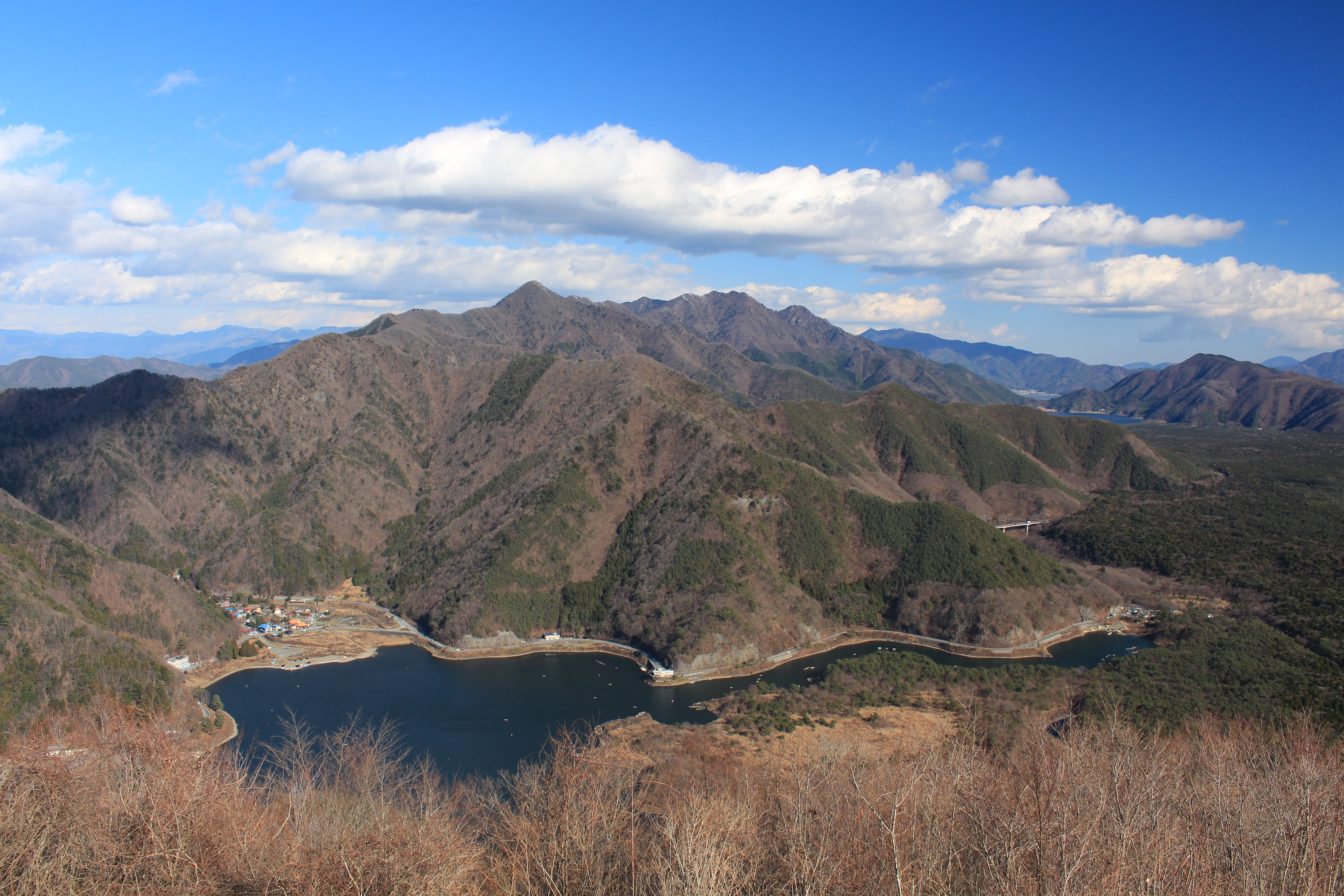 Lake Shōji from Panoramadai in Fujikawaguchiko, Yamanashi prefecture, Japan.